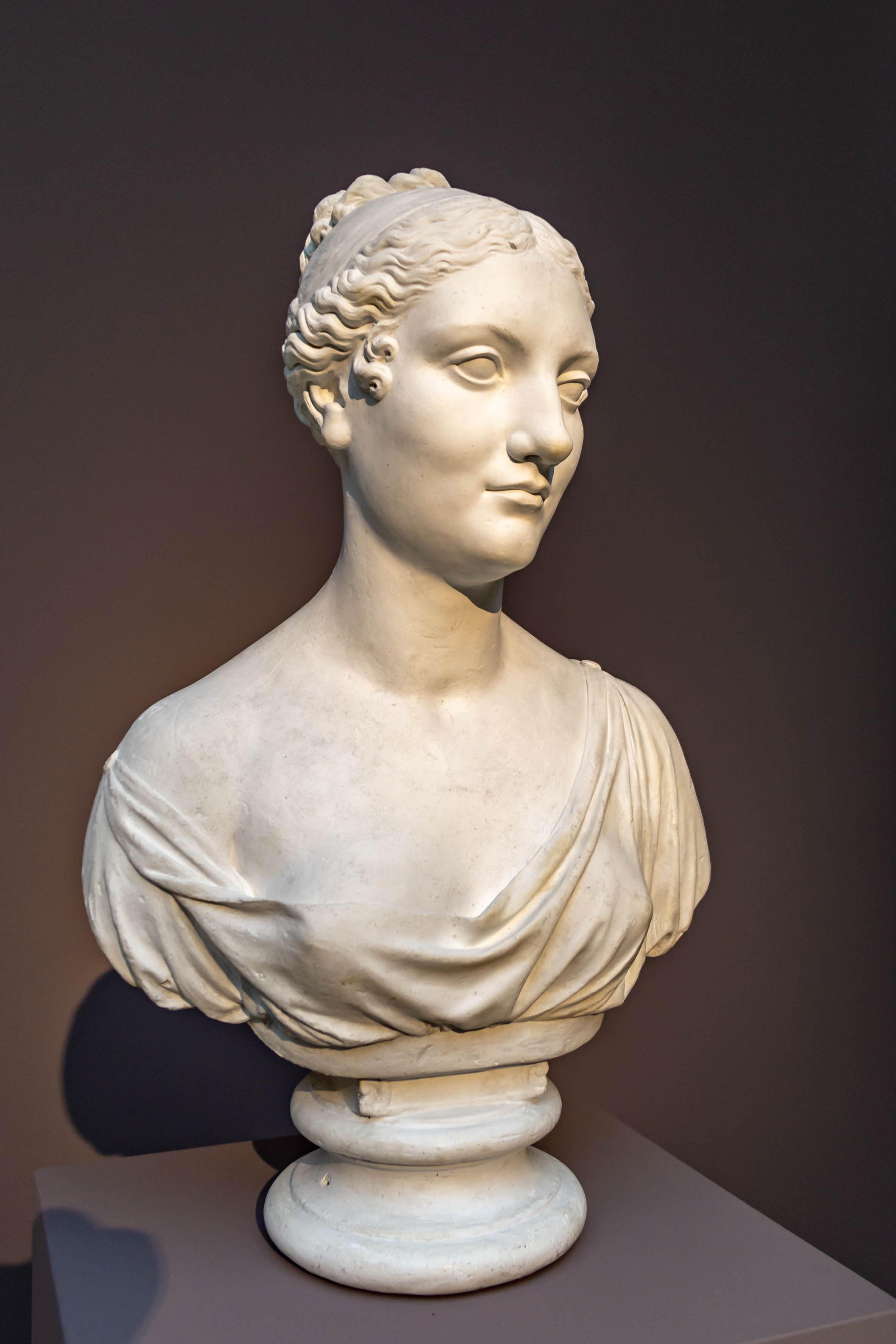 Archduchess Stephanie von Baden